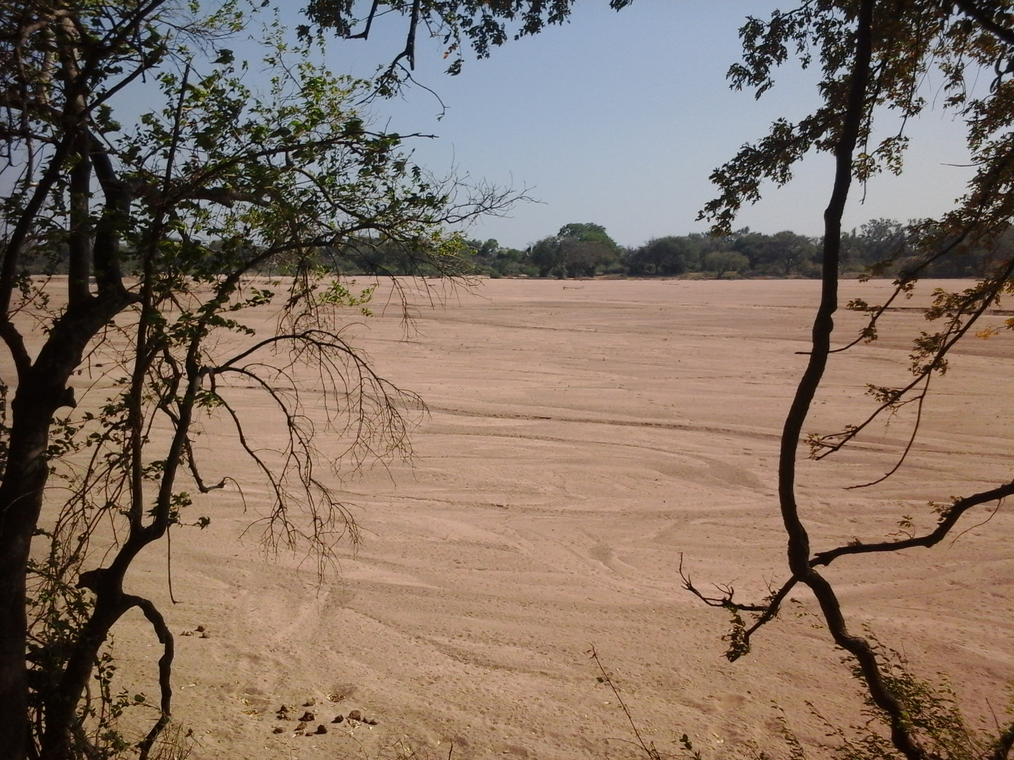 The Shashe River bed, a highly ephemeral river. This is an image with the theme "Africa on the Move or Transport" from: Botswana